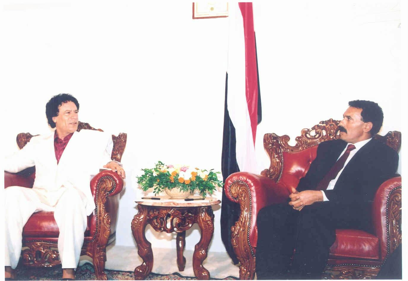 Mummar Qaddafi of Libya And Ali Abdullah Saleh in Sanna May 30th 1990, right after the Unification of Yemen